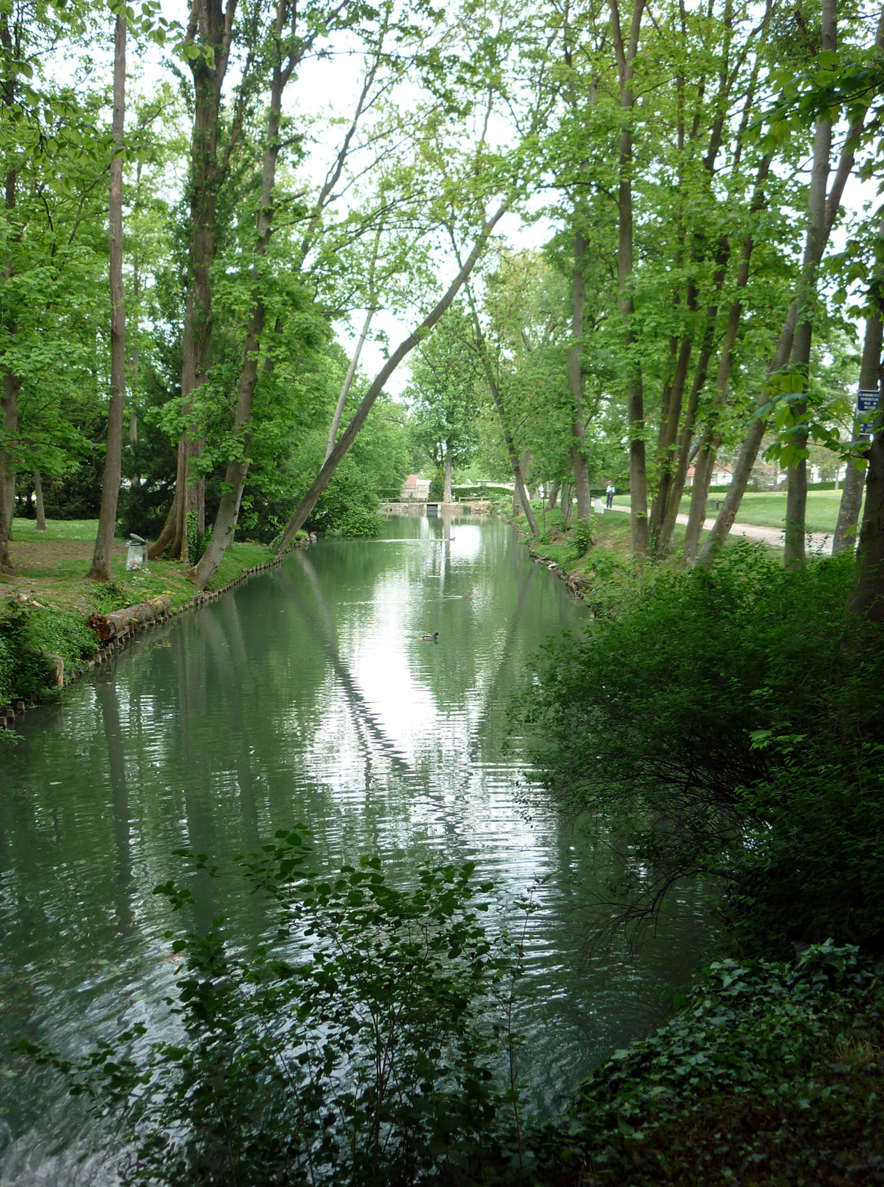 Arthur Clark park, Wissous, France